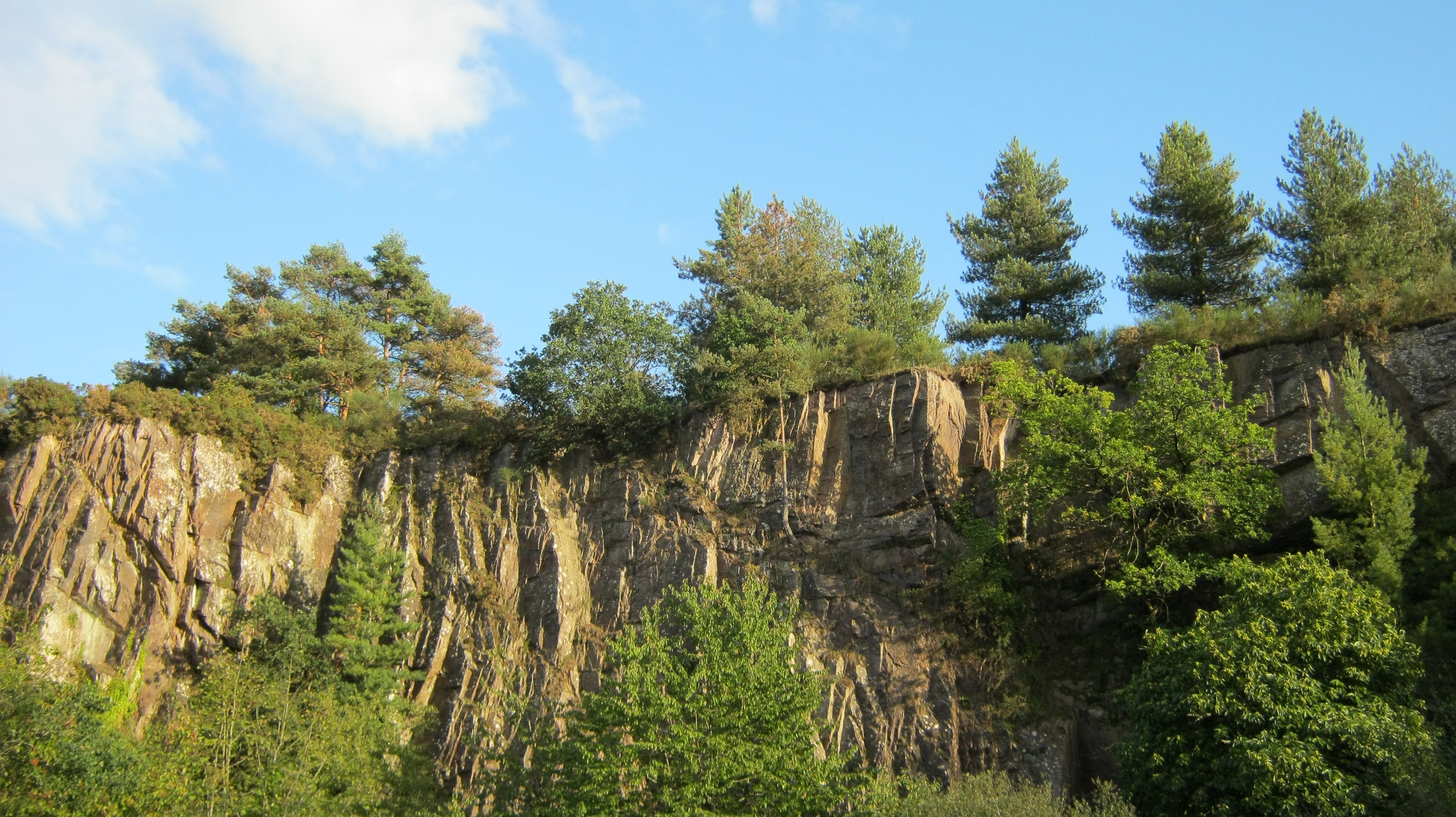 Les carrières du Boël